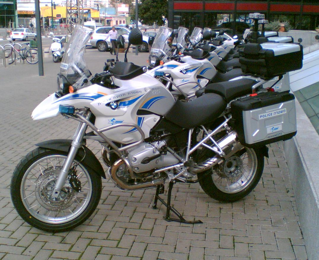 BMW R1200GS of the Israeli Traffic Police. Picture taken by user:David Shay